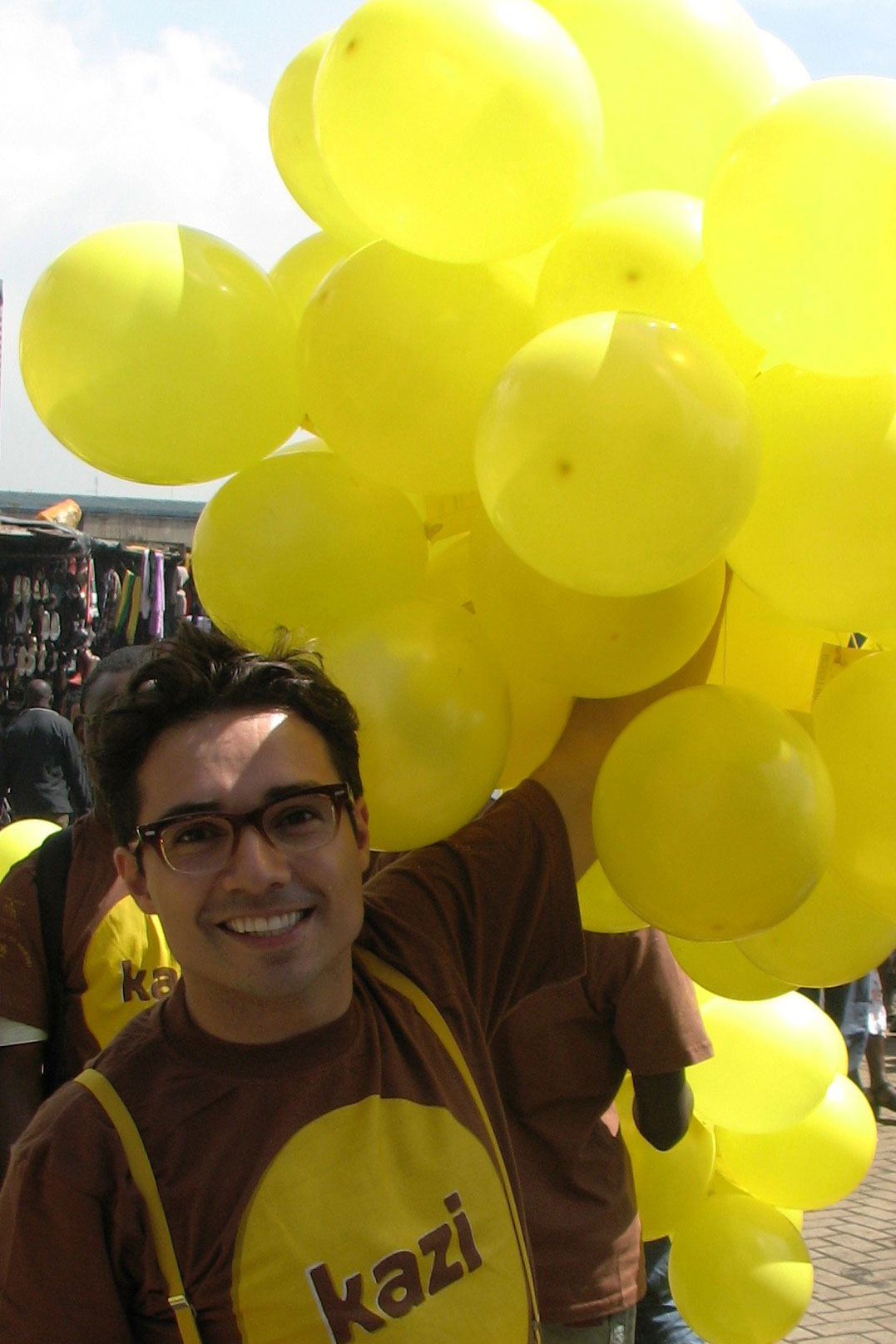 Yazmany Arboleda amidst his Monday Morning installation in Nairobi, Kenya on November 7, 2011